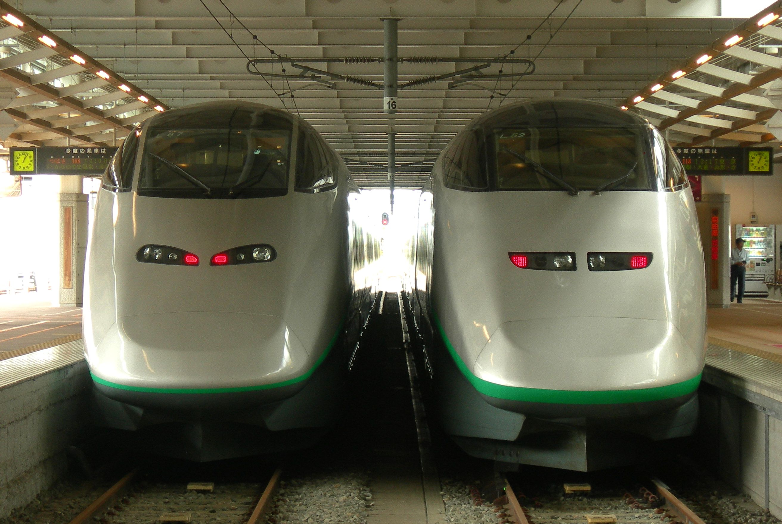 JR East E3-2000 series (left) and E3-1000 series (right) shinkansen trains at Shinjo Station on Tsubasa services